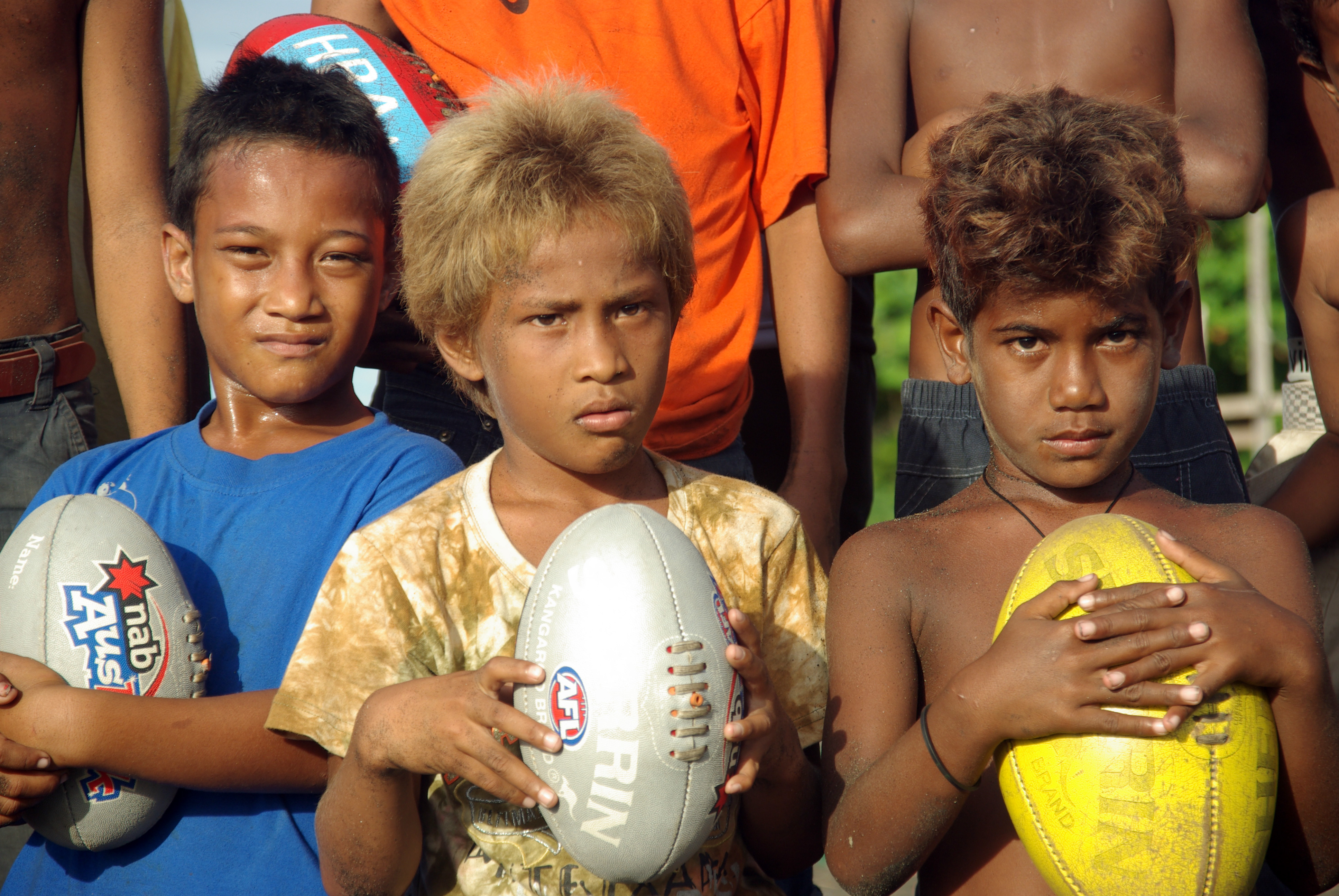 A close up shot of three junior AFL player holding footballs at the Lord Howe Settlement, Honiara.